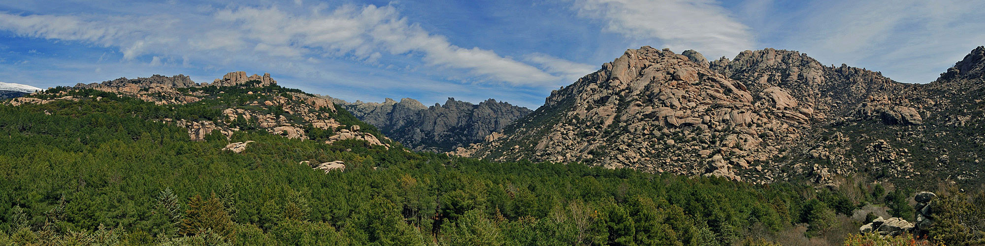 A panoramic view of La Pedriza from Canto Cochino.